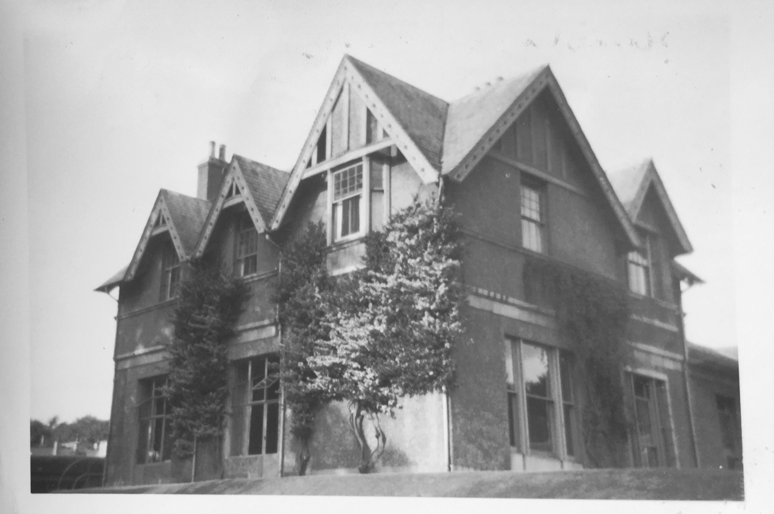 Kepplestone House, Viewfield Road, Aberdeen. Photographed in 1956. The property was used at the time by Dunfermline College of Physical Education, Aberdeen.